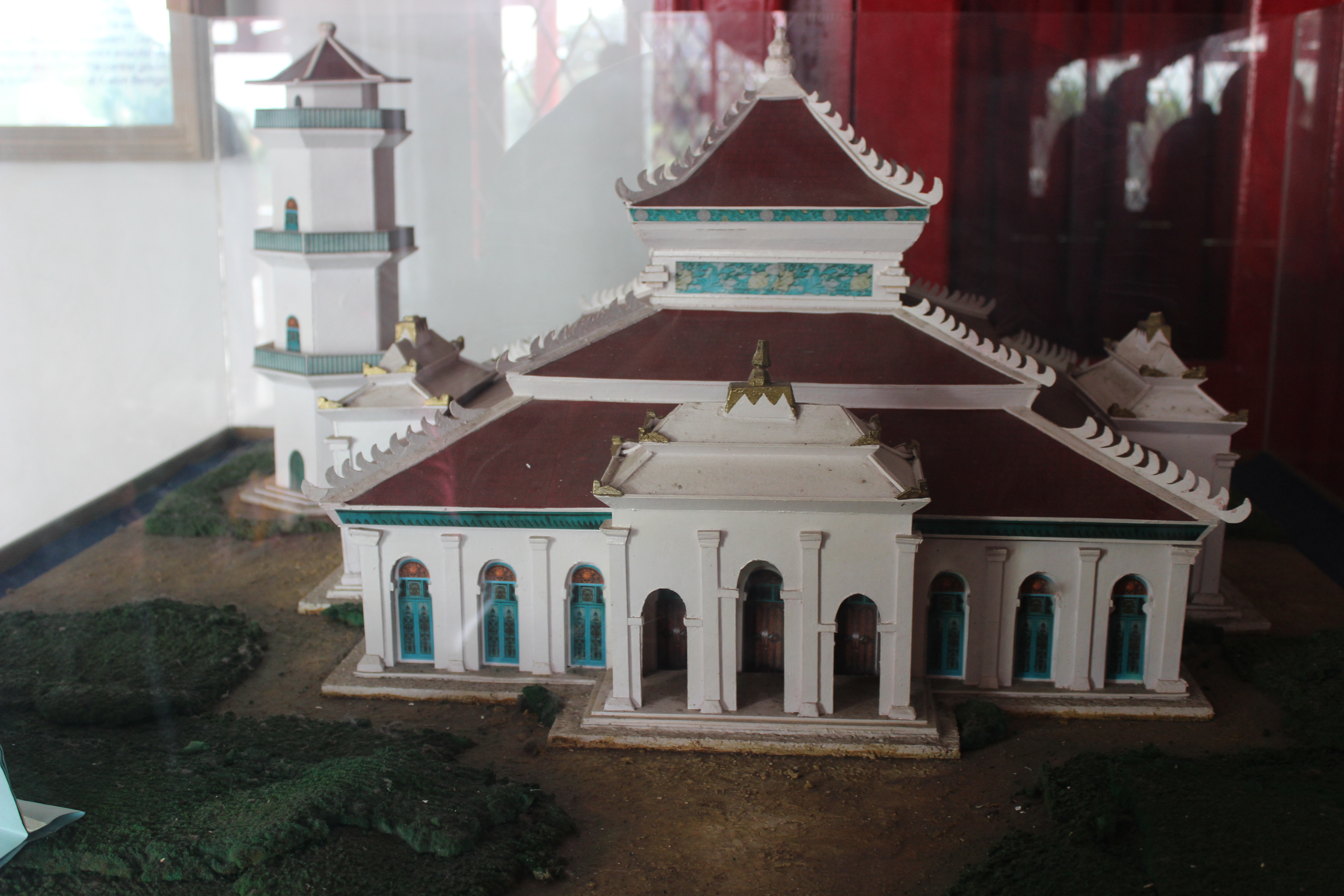 Model of the Grand Mosque of Palembang